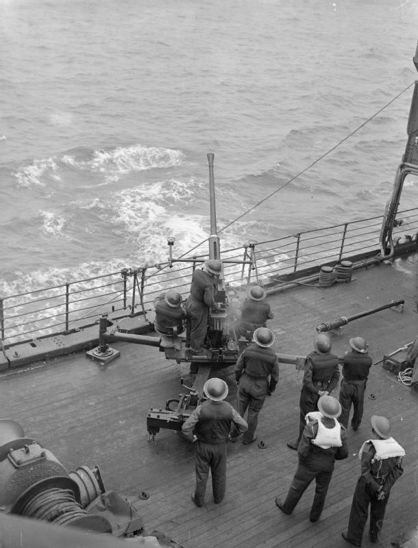 Operation Pedestal, August 1942 12 August: Air Attacks: Army gunners man a 40mm Bofors gun aboard Melbourne Star. These weapons were intended for the air defence of Malta, and were nominally part of the cargo, but were used to supplement the ship's close range armament.